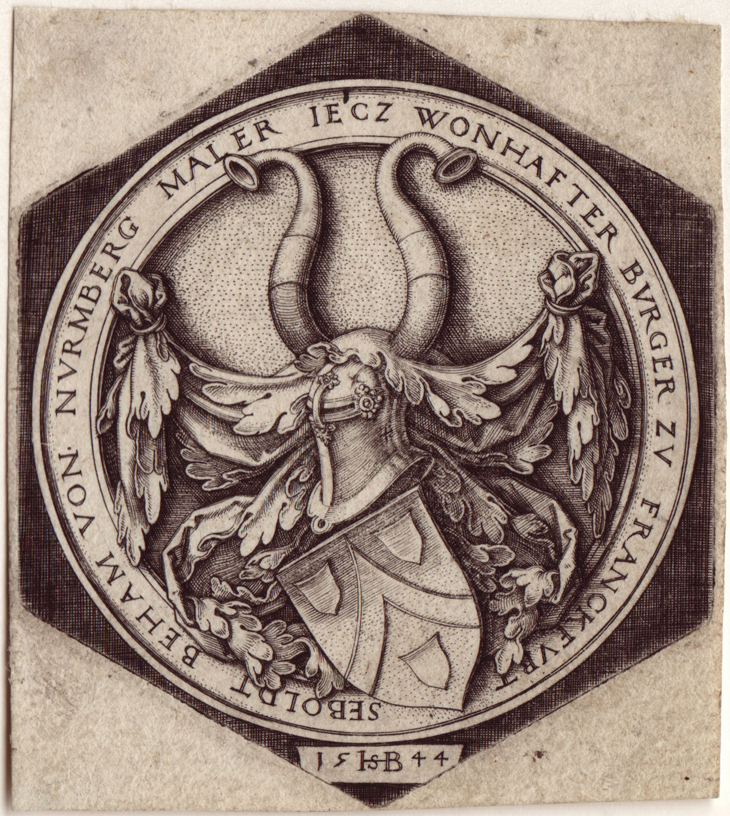 Beham, (Hans) Sebald (1500-1550): Coat of Arms of H. S. Beham, 1544, P.265, B.254.